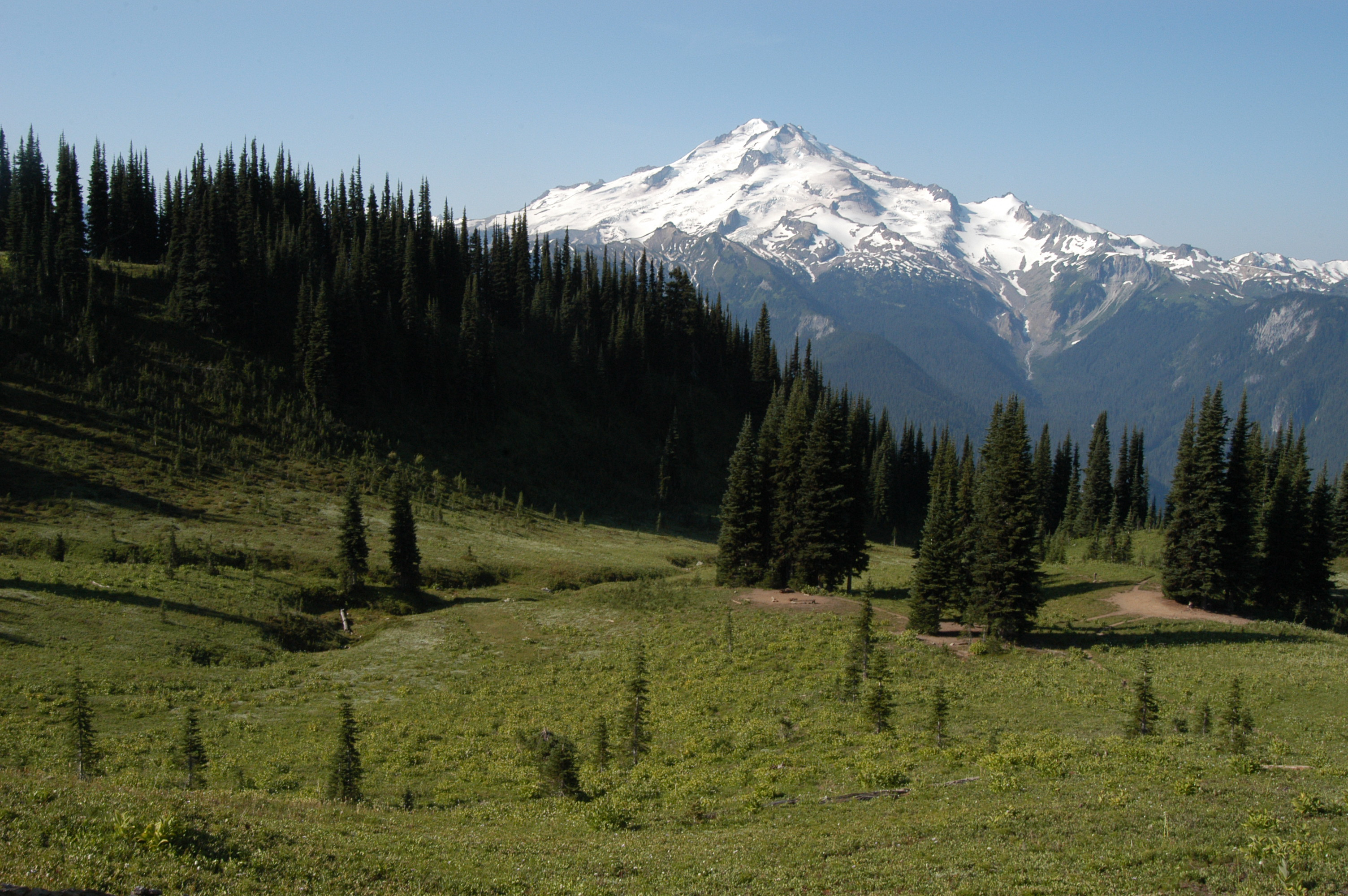 The northeast face of Glacier Peak in the morning from near Image Lake. The Dusty, Ermine and Vista Glaciers (l to r) are visible.Glacier Peak